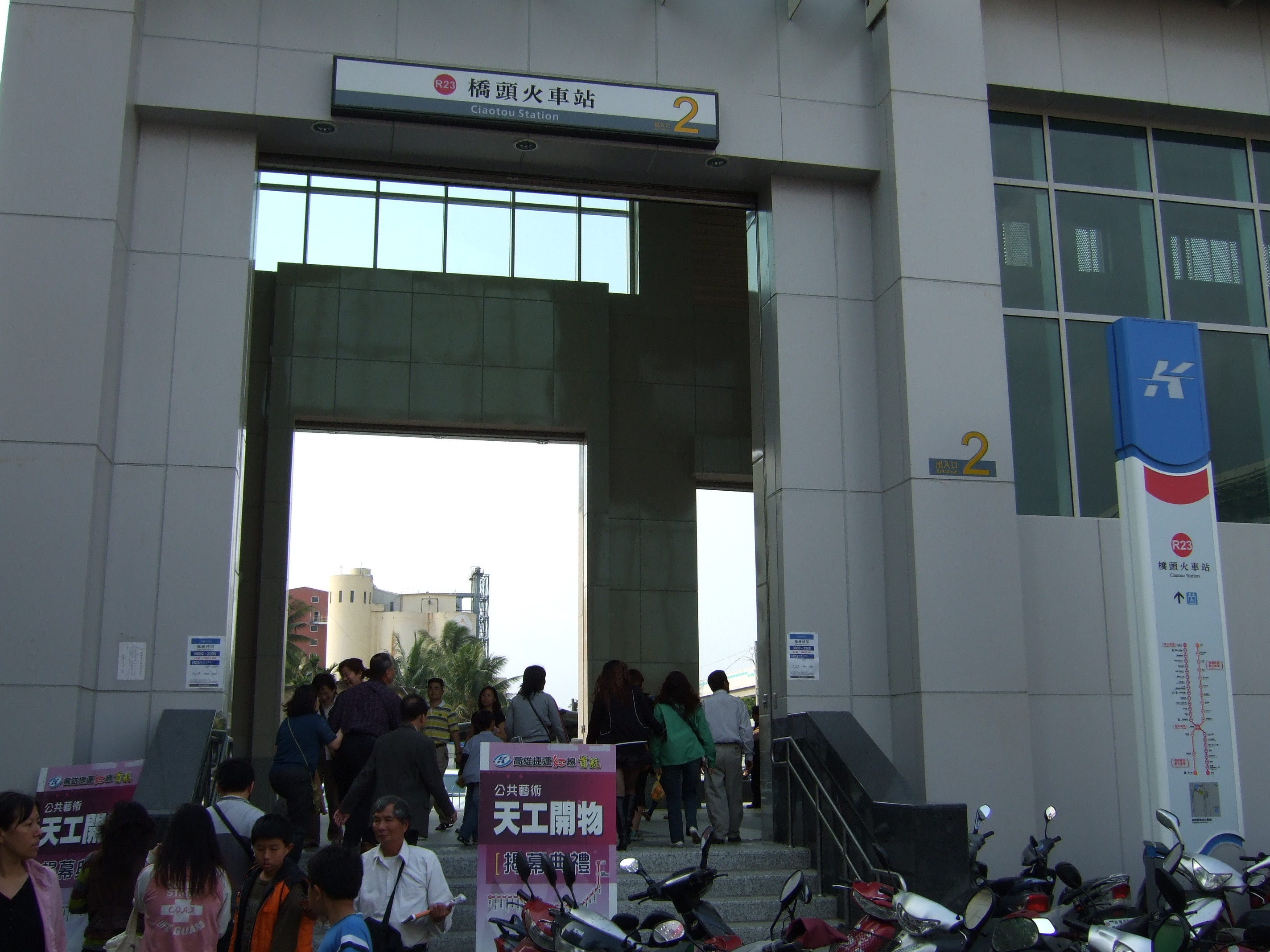 Ciaotou Station, a TRA and Kaohsiung MRT railway station in Taiwan.